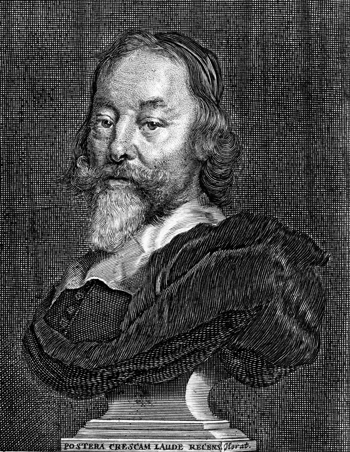 Simon Paulli (1603-1680)